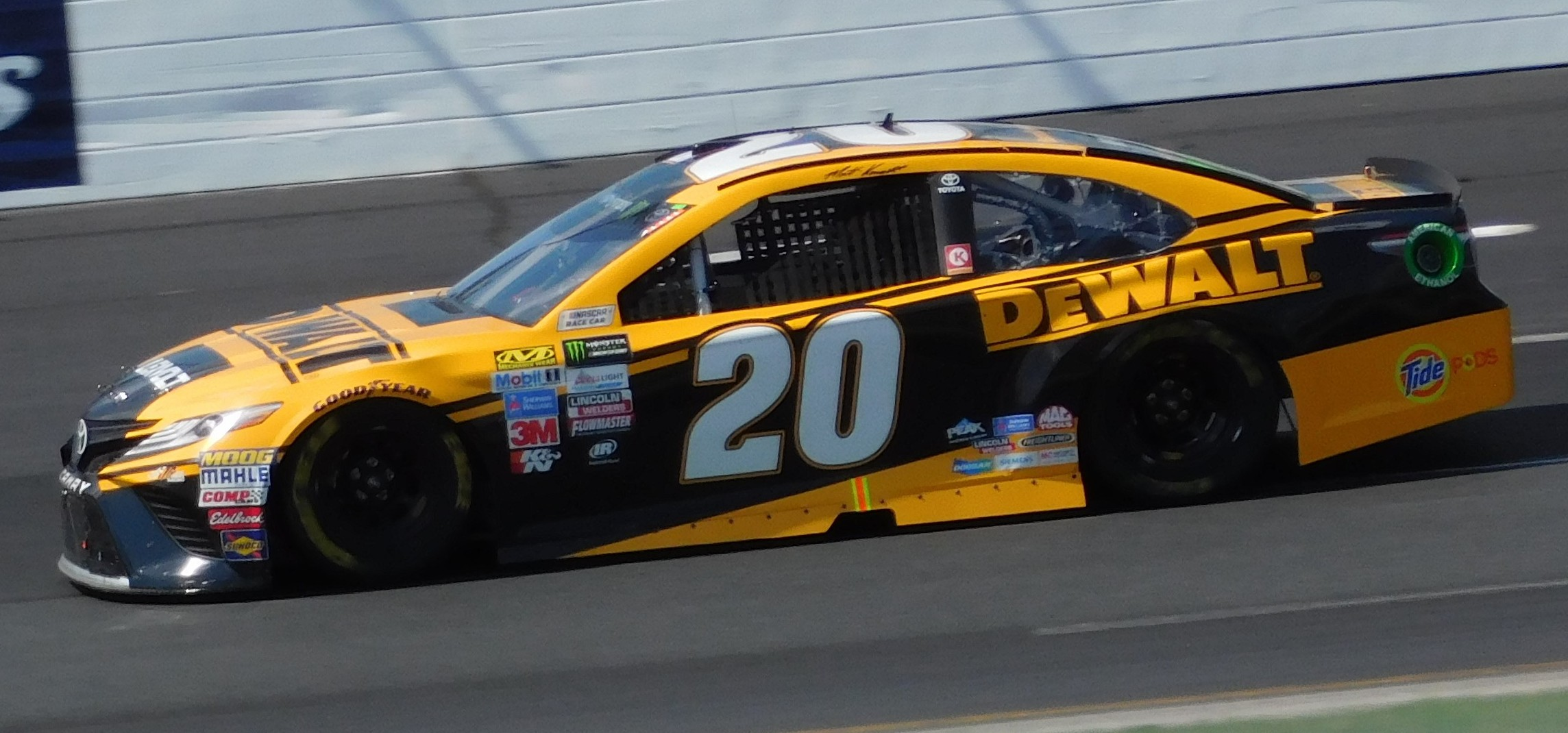 Matt Kenseth's No. 20 DeWalt Toyota at New Hampshire Motor Speedway in 2017